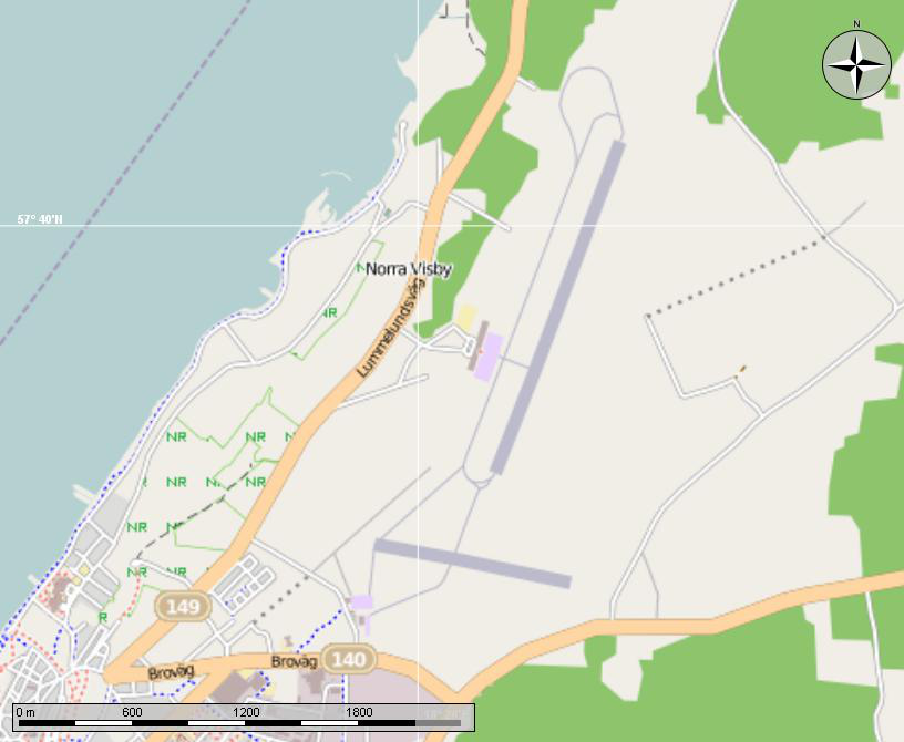 Open Street Map of the Visby Airport in Sweden. Saved in GIMP.